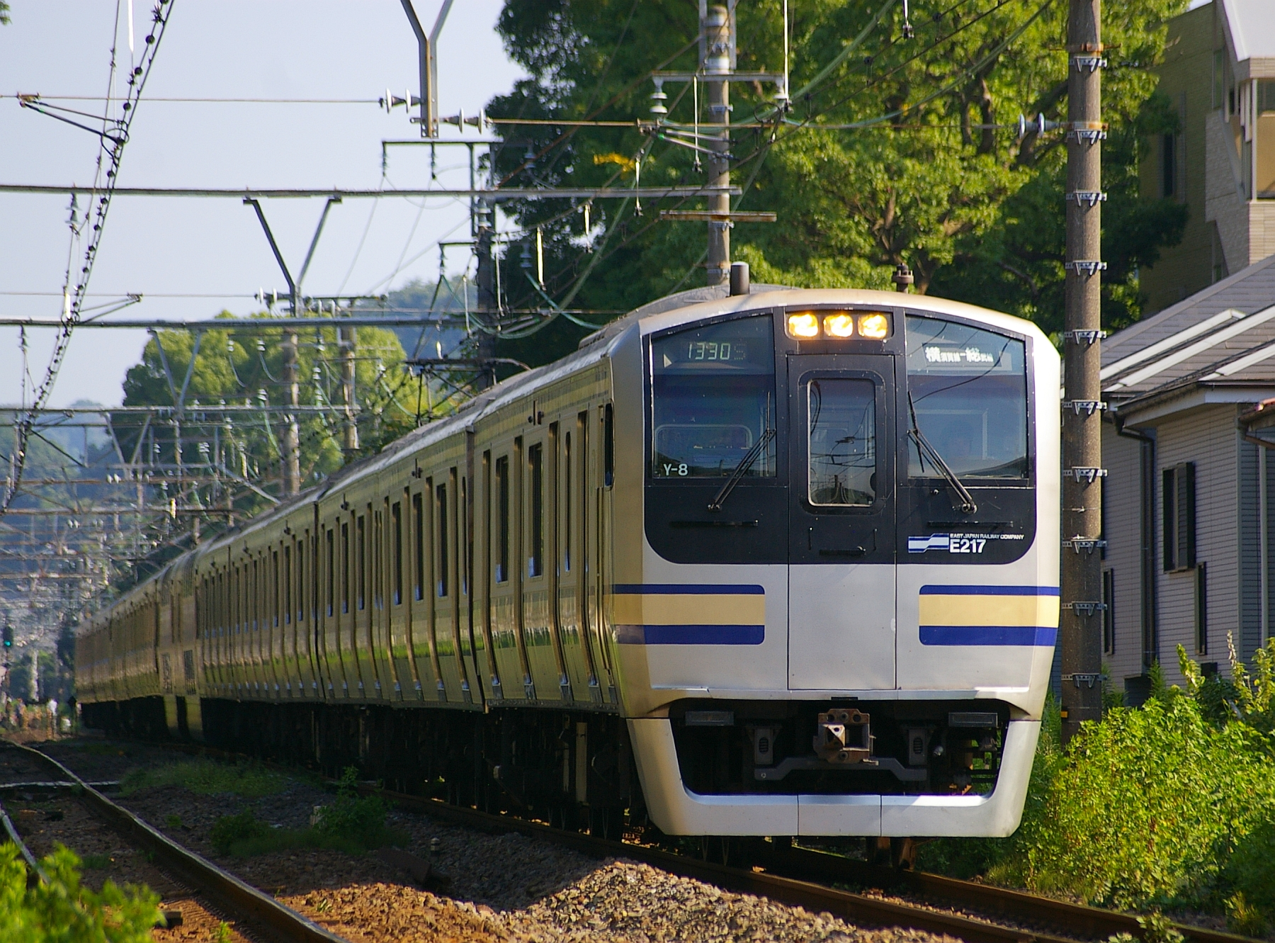 the "Series E217" JR-East for Yokosuka-Line & Soubu-Line